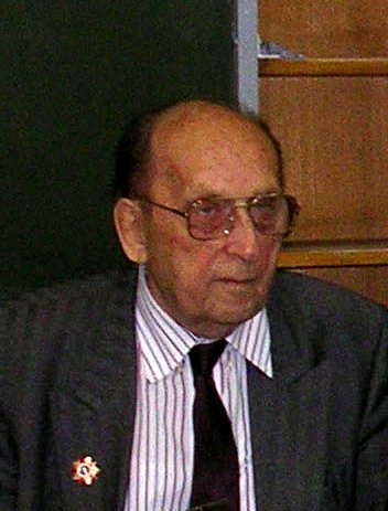 Academician Arbatov G.A.